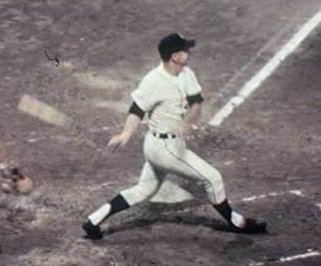 Frame from the promotional film "WJR: One of a Kind". Detroit Tigers first baseman Norm Cash, in a game against the Chicago White Sox